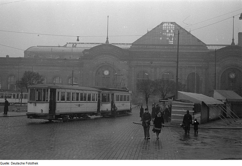 Original image description from the Deutsche FotothekSommer 1947